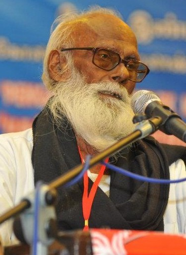 anaimuthu